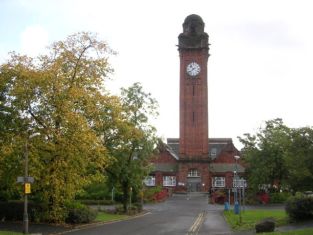 Clock Tower, Stobhill Hospital, Springburn. The hospital was designed by the architects Thomson & Sandilands and opened in 1904. Stobhill was built by the Parish of Glasgow to meet the increasing need for hospital accommodation for the city's sick poor. For many years it carried the stigma of being a hospital for paupers, and the birth certificates of babies born there only recorded the address and not the name of the hospital.